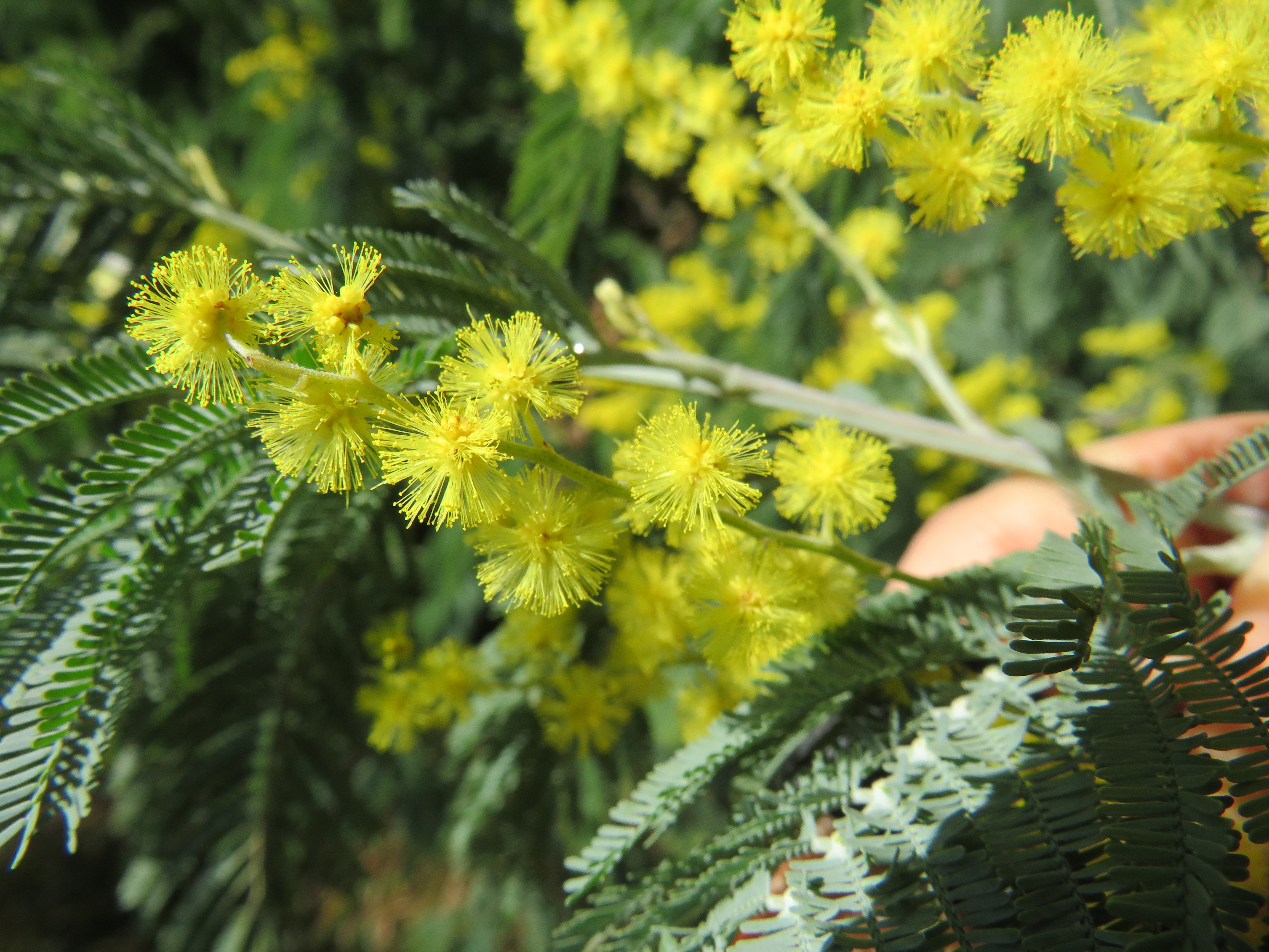 Flowers of Acacia dealbata (mimosa), in Armintza (Bilbao, Spain).